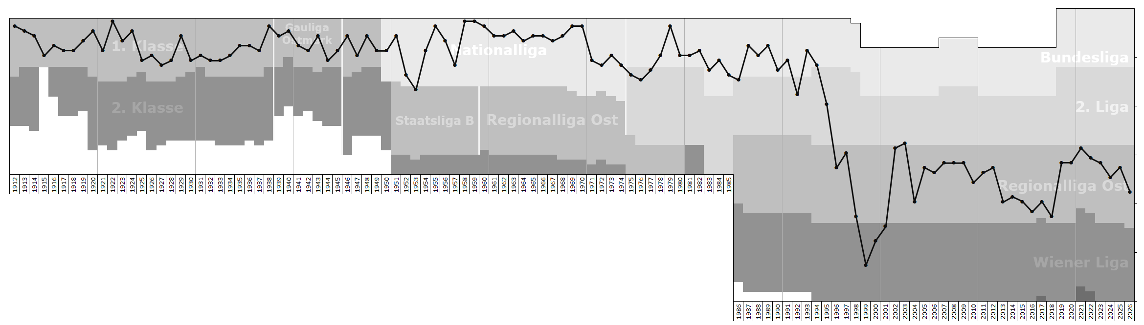 Chart of end-season table positions of Wiener SC in the Austrian football league system. Data source: RSSSF, , regiowiki.at, wfv.at, wikipedia